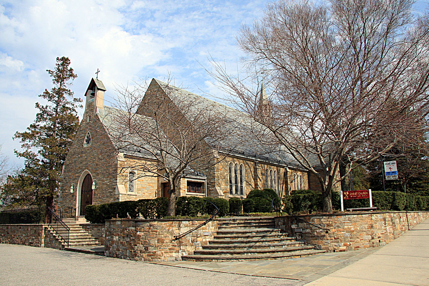 Christ Church, Oyster Bay, New York - exterior